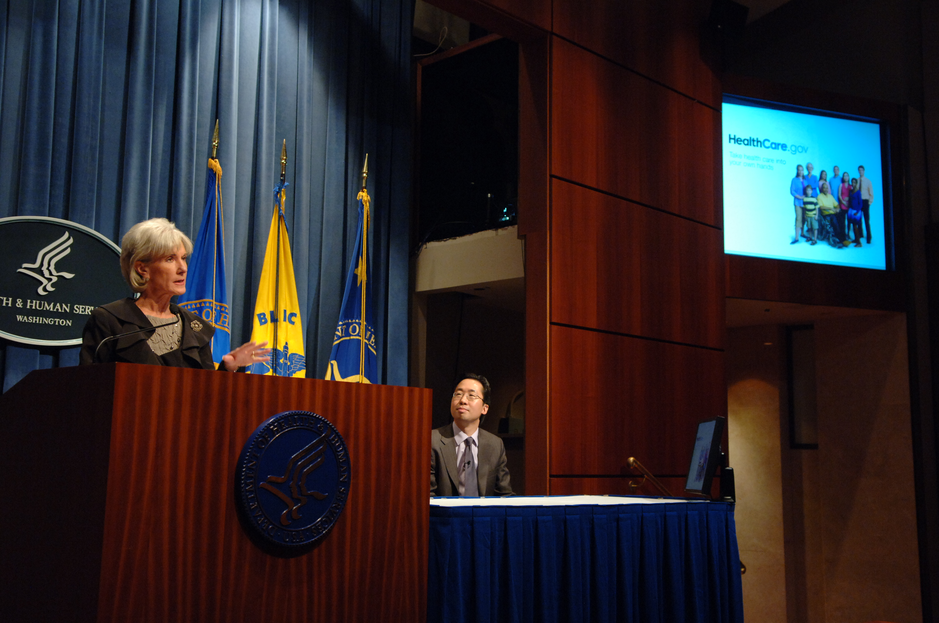 Kathleen Sebelius HHS photo by Chris Smith